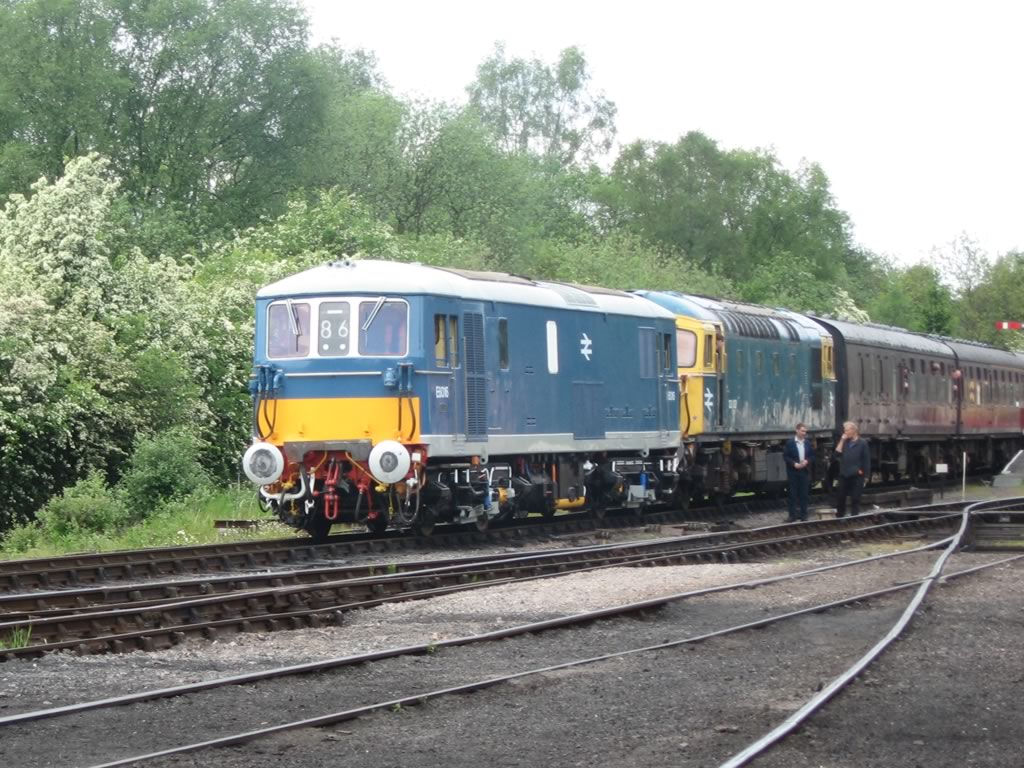 Class 73 no. E6016 and Class 33 no. 33102 at Cheddleton on the Churnet Valley Railway.